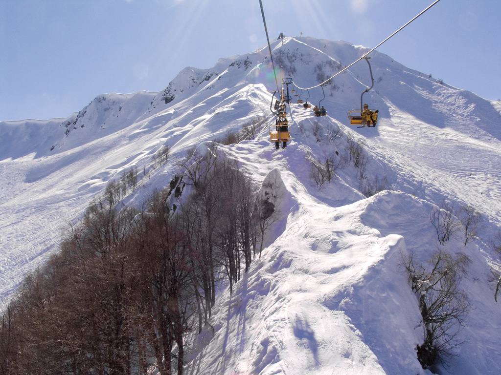 Former chairlift Alpica Service. Dismantled in 2012